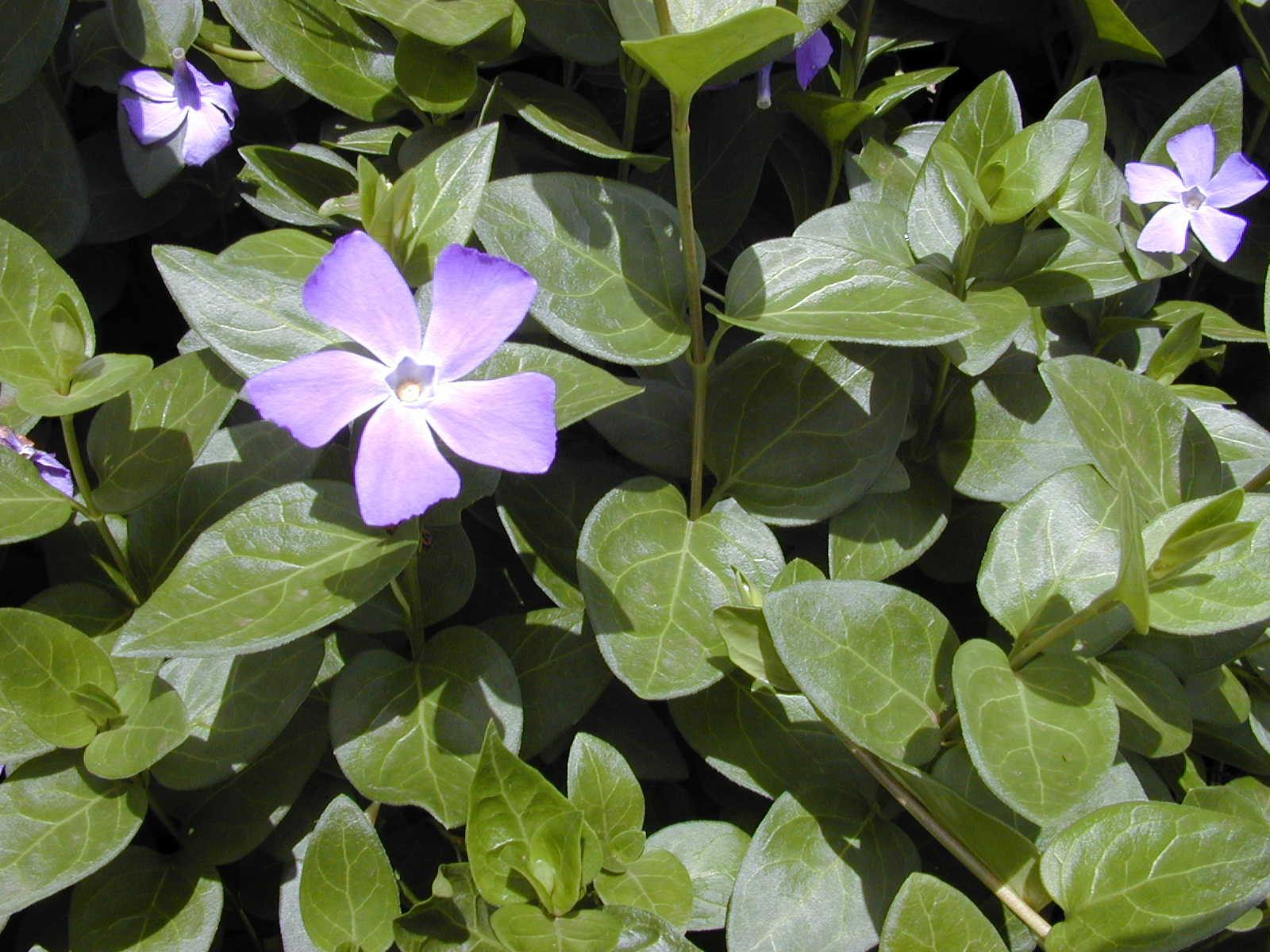 Vinca major (flowers). Location: Maui, Kula